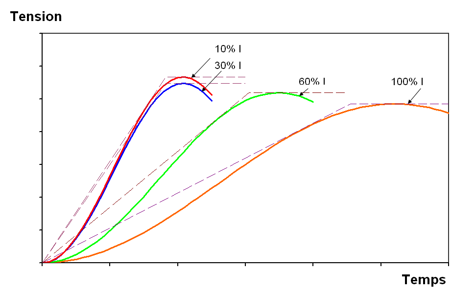 Standard TRV for circuit breakers less than 100 kV